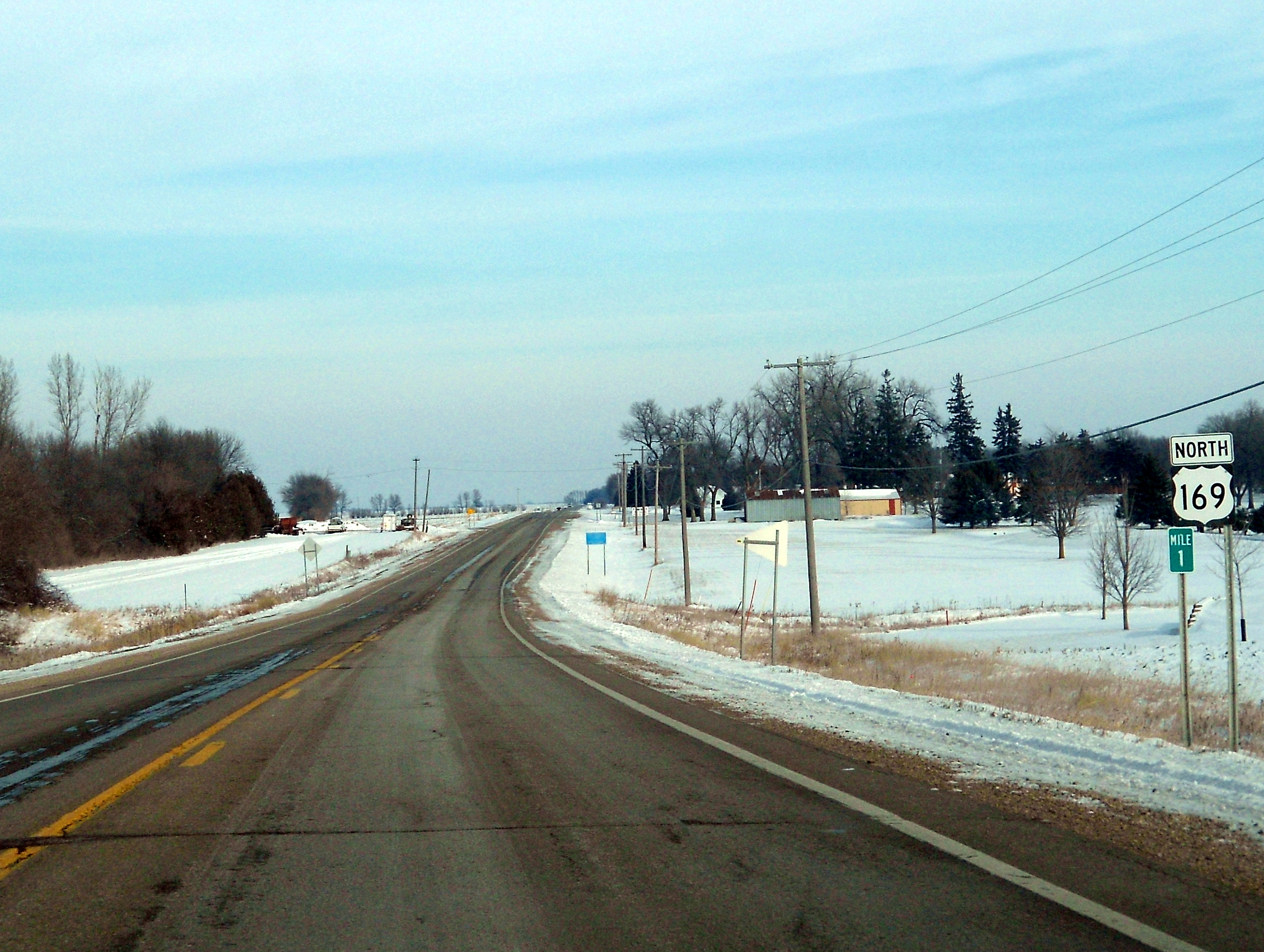 US 169, Faribault County, MN